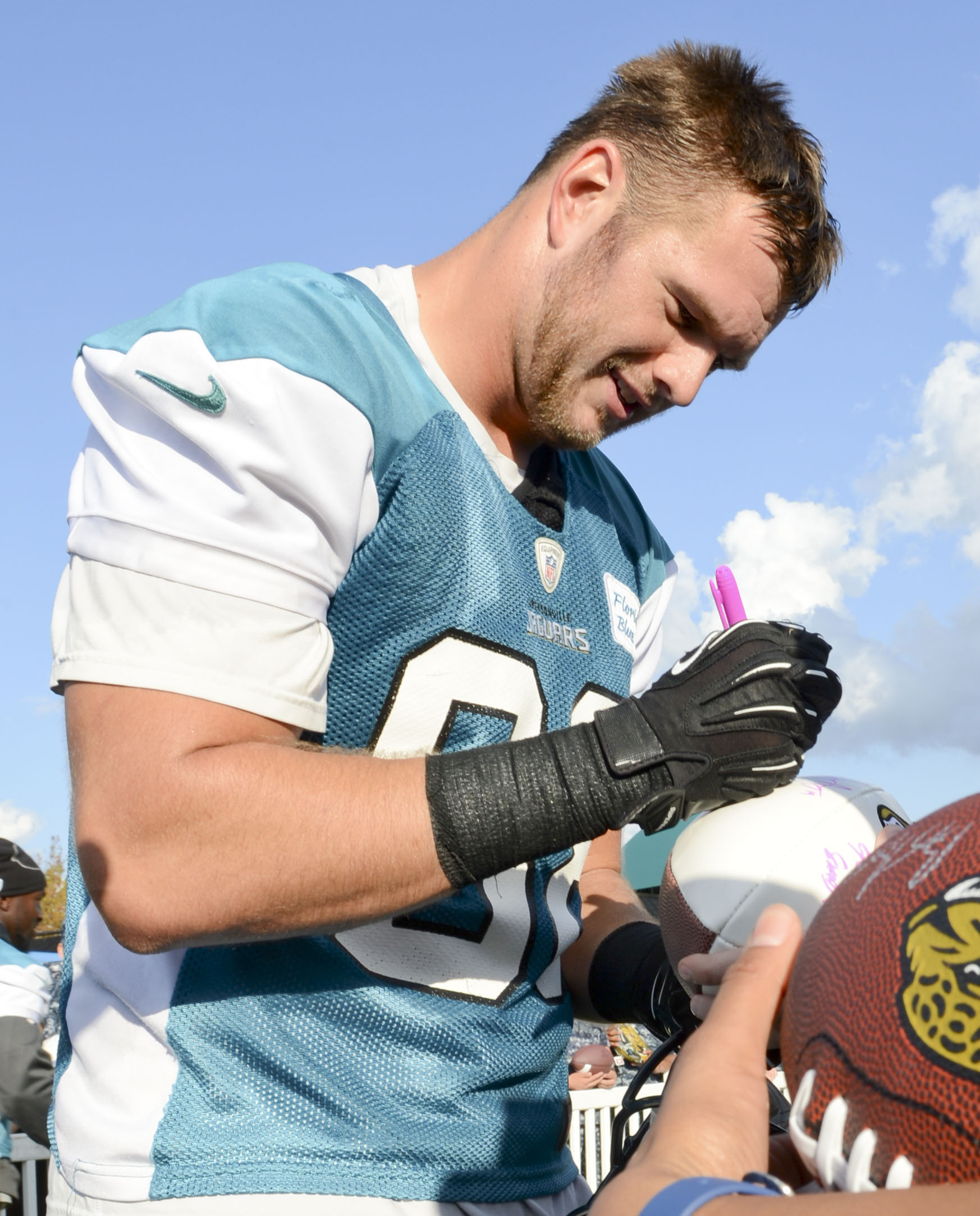 Jacksonville Jaguars tight end Zach Potter signs a football for a sailor from the amphibious assault ship USS Bataan (LHD 5). More than 300 sailors and Marines gathered in the EverBank Field practice facility as part of the city of Jacksonville's "Week of Valor." Sailors met with players after the practice for autographs and photos. (U.S. Navy photo by Mass Communication Specialist Seaman Rob Aylward/Released)